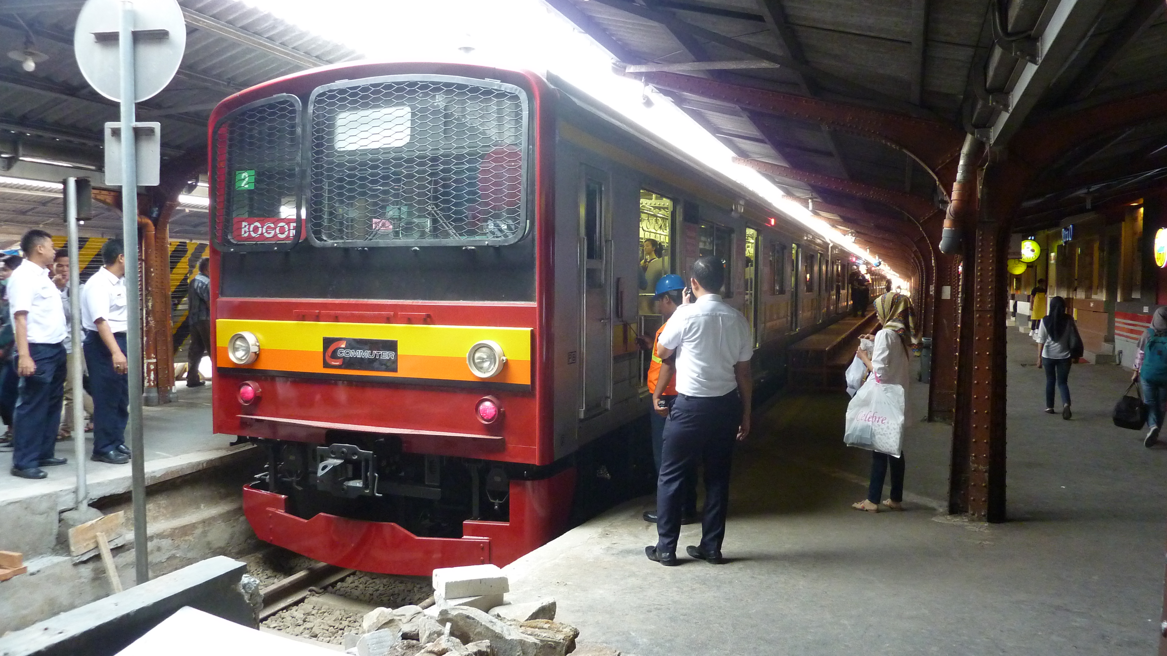 Former Nambu Line set 2 and 4 in the first day of 12-car commuter operation stopping at Jakarta Kota Station, September 2015.